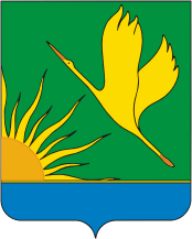 Shatura sity (Moscow oblast), coat of arms (2011)